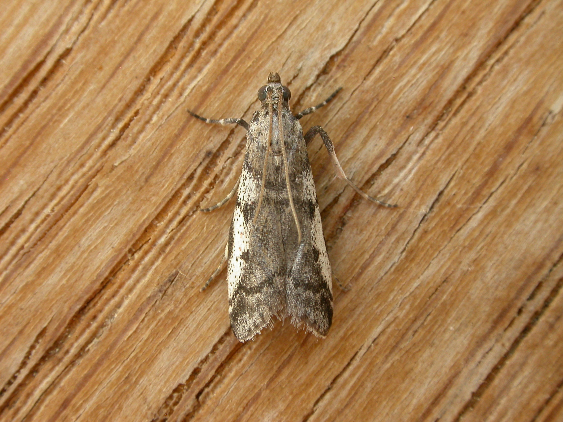 Assara holophragma (Meyrick, 1887), to MV light, Aranda, ACT, 20/21 November 2010